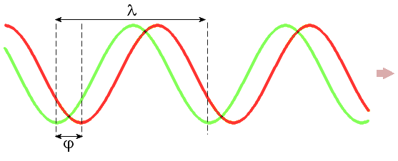 Illustration of the phase shift in wave mechanics.